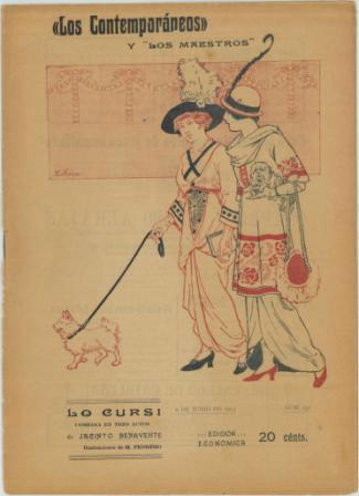 Los Contemporáneos, Lo Cursi, 6.6.1913, nº 232, cover by Mariano Pedrero